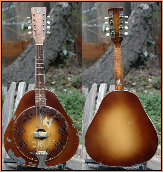 1930 National Triolian Mandolinfrom Lowell Levinger's collection